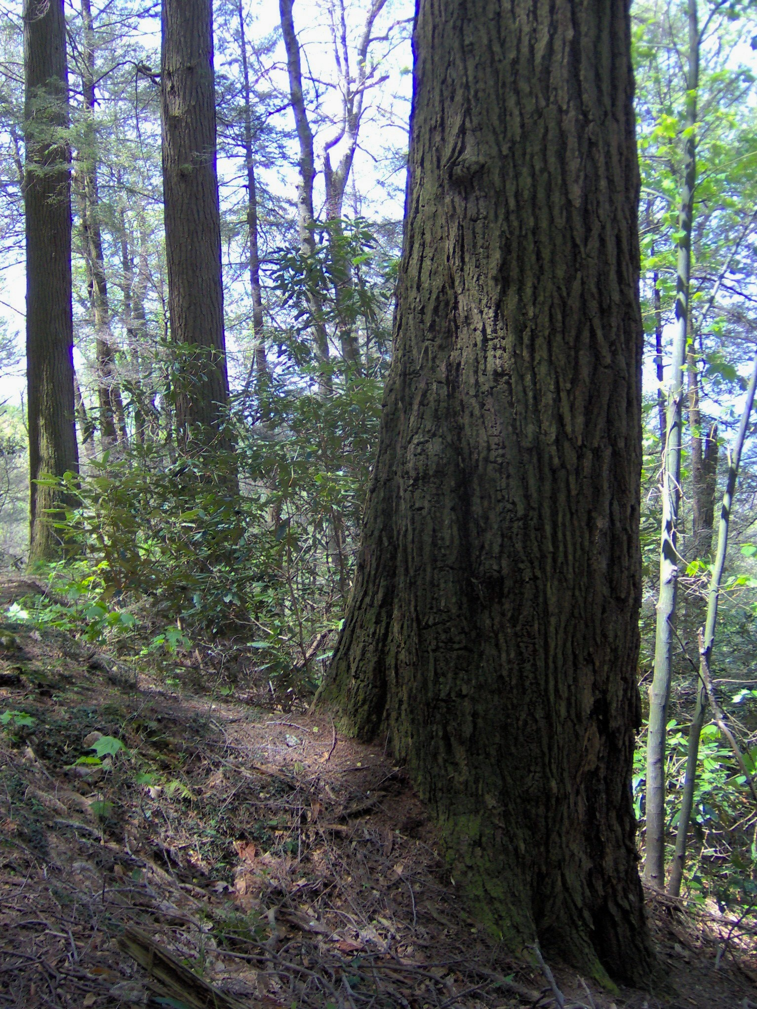 Albright Grove, a patch of old growth Cove hardwood forest in the Great Smoky Mountains National Park. *In the Cocke County park area, Tennessee, in the southeastern United States.